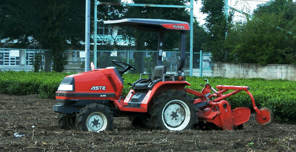 Kubota tractor ASTE A-175.